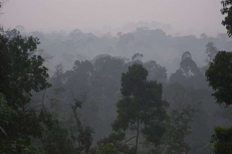 Habitat shot - Panti Forest early in the morning with mist present Panti is well known to birders for the large variety of beautiful species in a small area. Early mornings are the best time to catch these forest beauties. One of the joys of an early morning start is the promise of a glimpse of the pristine beauty of the forest itself. This view is at dawn and the mist cloaks a slowly wakening land. For recent information about the forest try this link: 22nd. October 2006 _Q0S0162.jpg